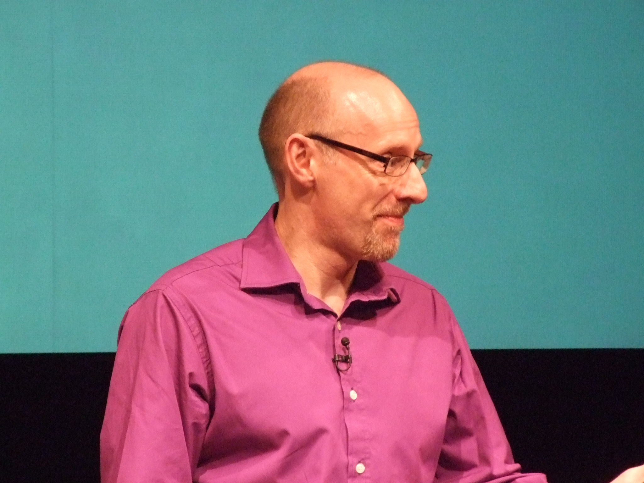 Richard Wiseman speaking at TAM London 2009.